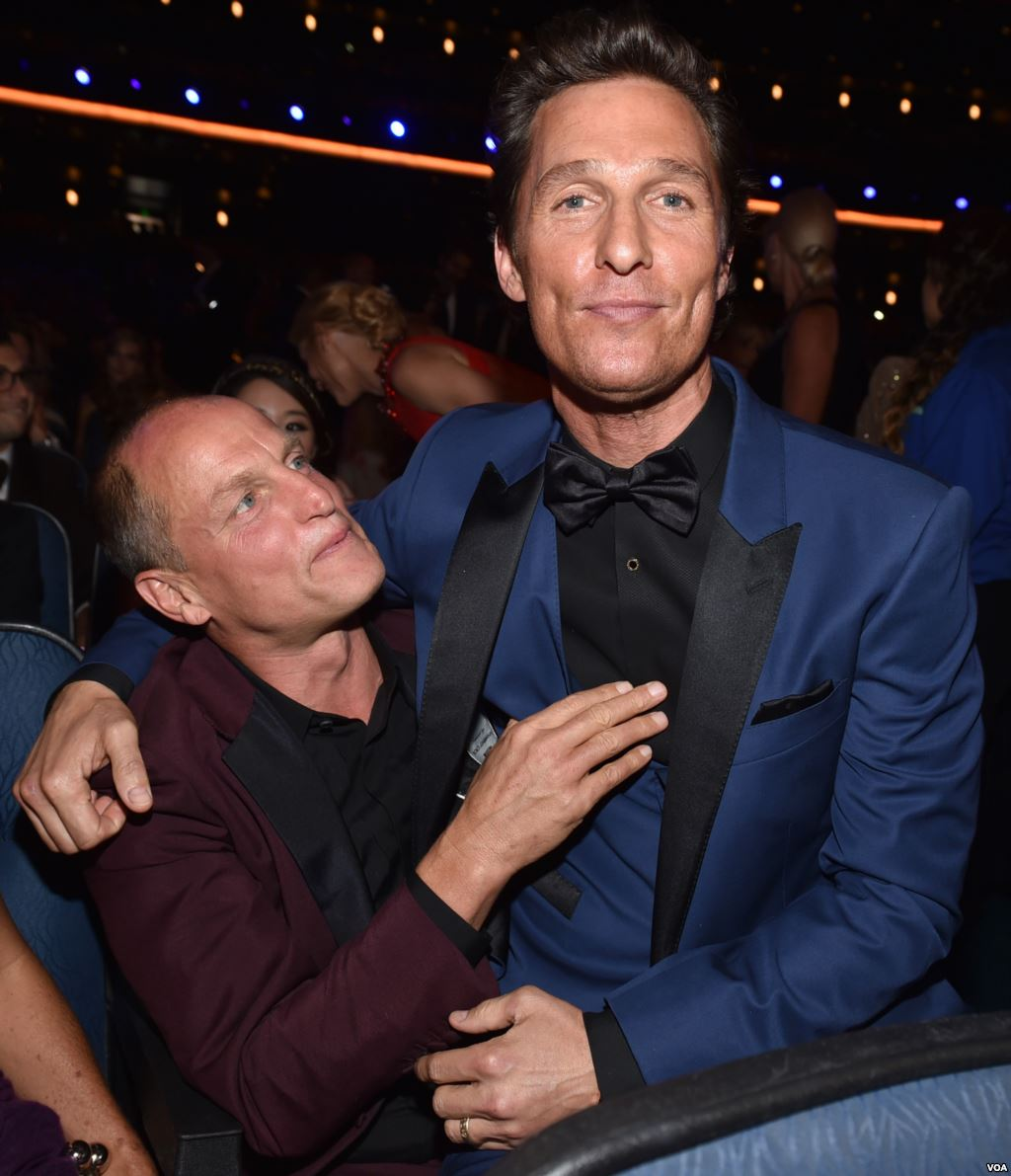 Woody Harrelson, left, and Matthew McConaughey pose at the 66th Primetime Emmy Awards at the Nokia Theatre L.A. Live, Los Angeles, Aug. 25, 2014, in Los Angeles.